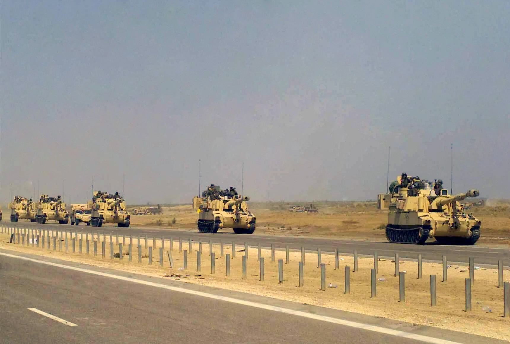 A convoy of US Army M109 A6 Paladin Self-propelled Howitzers travel along the highway on a march to the Euphrates River, in Iraq during Operation IRAQI FREEDOM.